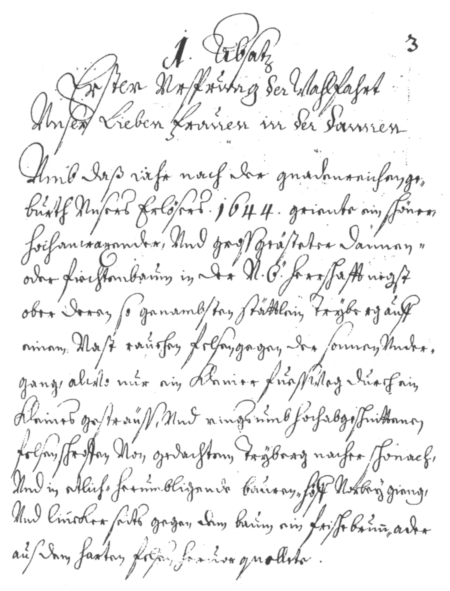 Degen's chronicle of the pilgrimage church Maria in der Tanne Triberg: Manuscript of page 1